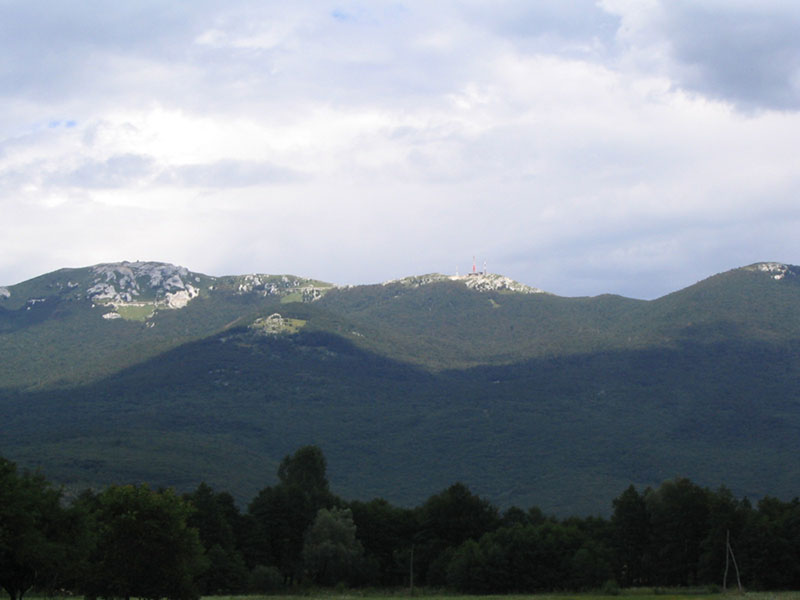 Mountain of Lička Plješivica, seen from Korenica, Croatia.